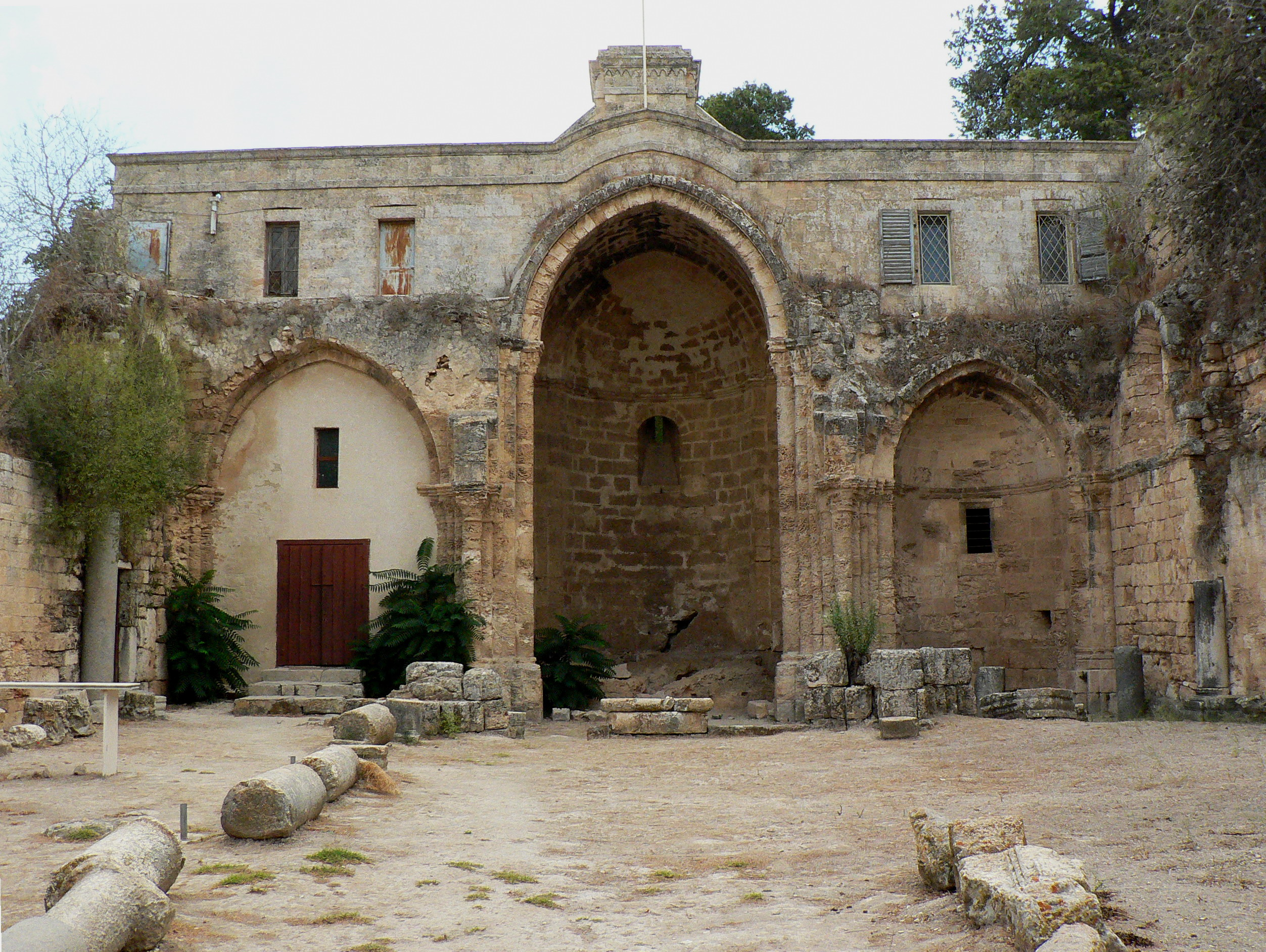 Zipori, Archeological sites of Israel